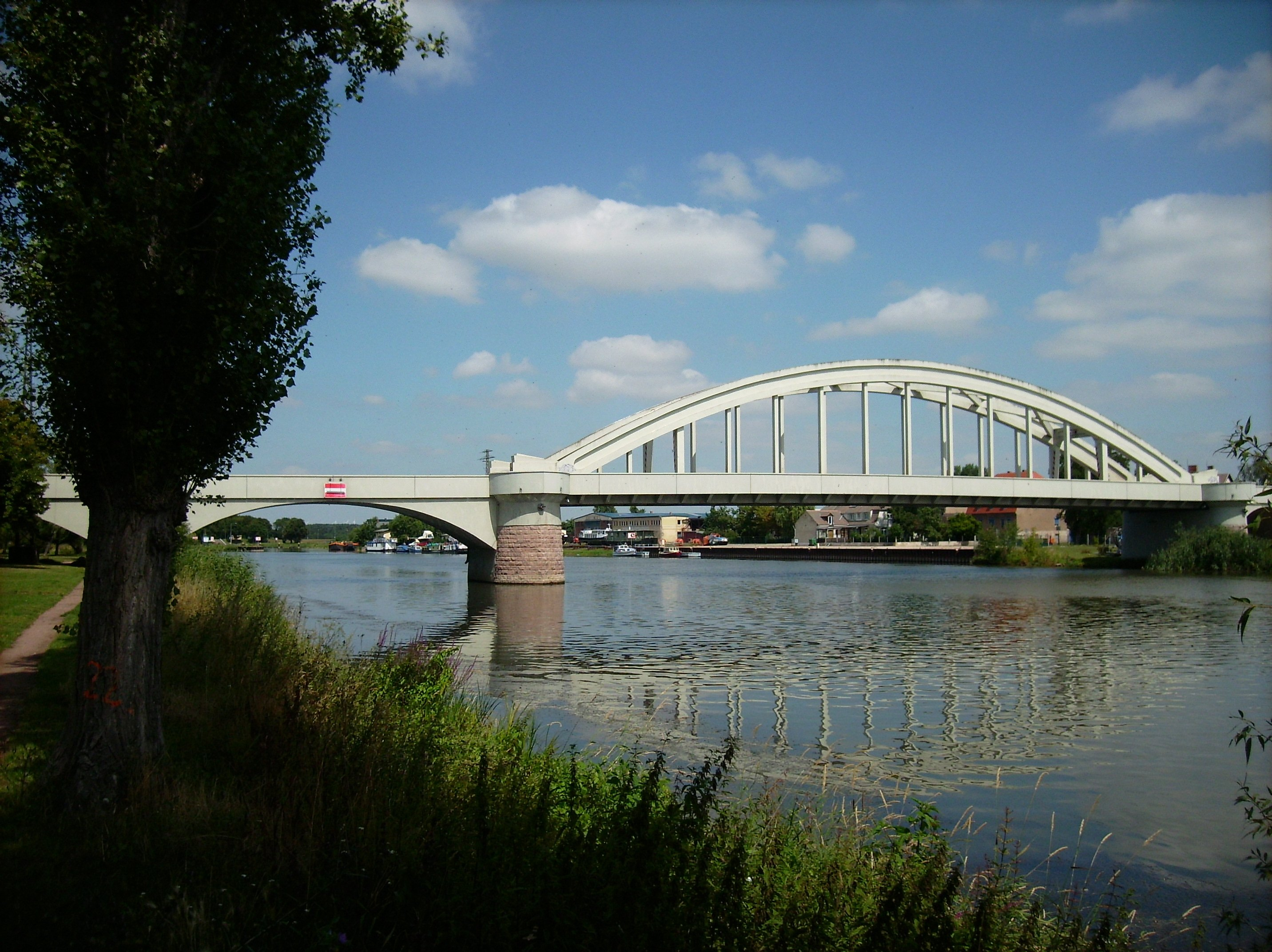 Bridge over the Saale river at Alsleben (district of Salzlandkreis, Saxony-Anhalt)